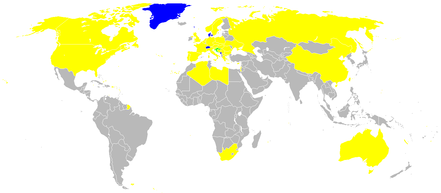 Map of the 2008 Serbian presidential election by countries; Yellow for Boris Tadic, Blue for Tomislav Nikolic, green for equal and blank for none